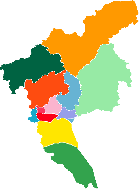 Subdivision of Guangzhou